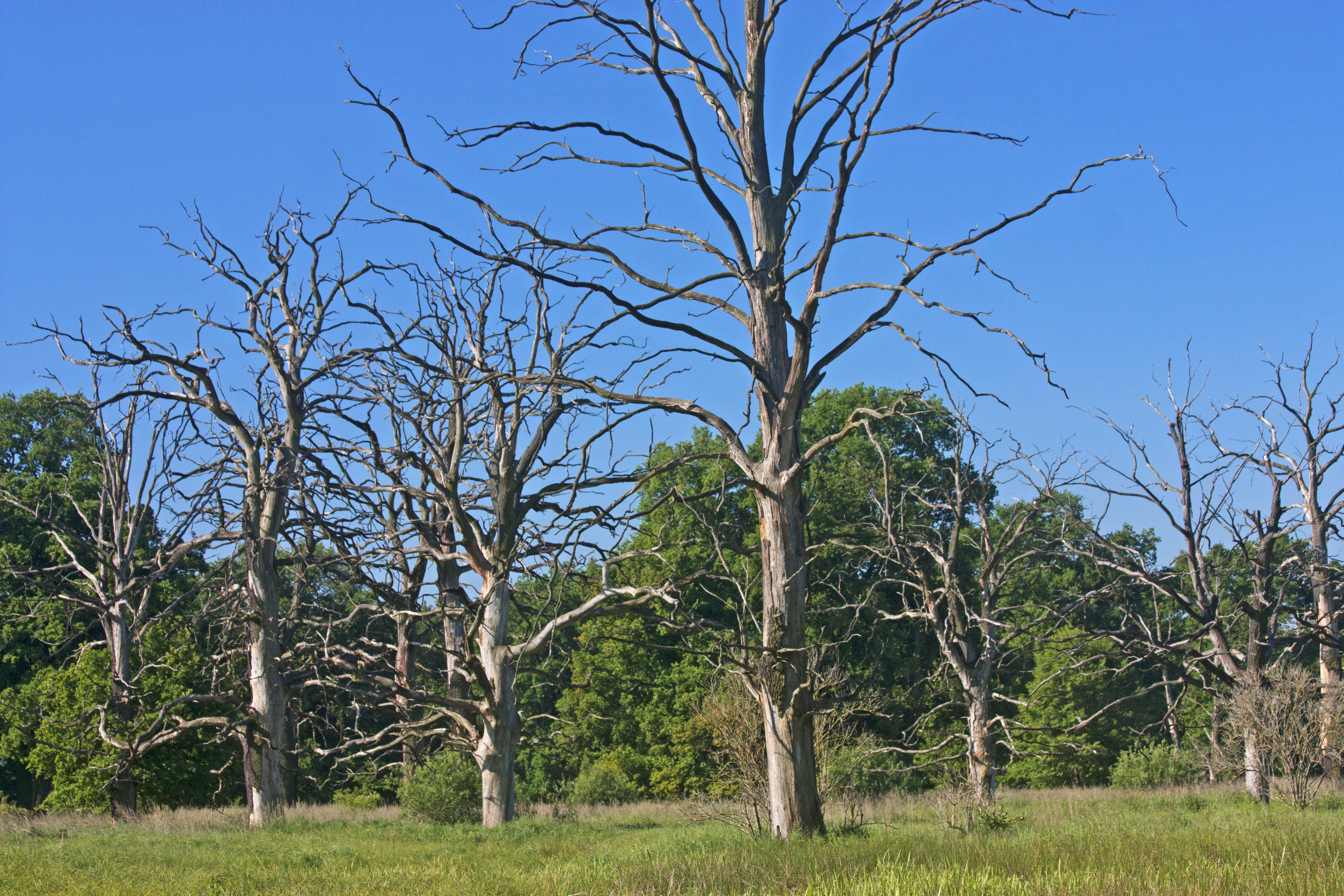 Dead pedunculate oaks (Quercus robur) in the nature reserve "Steinhorste"